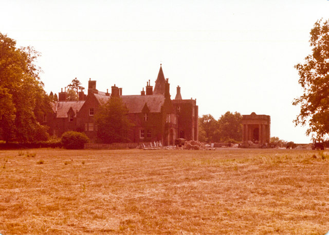 Spye House as it appeared in the summer of 1976